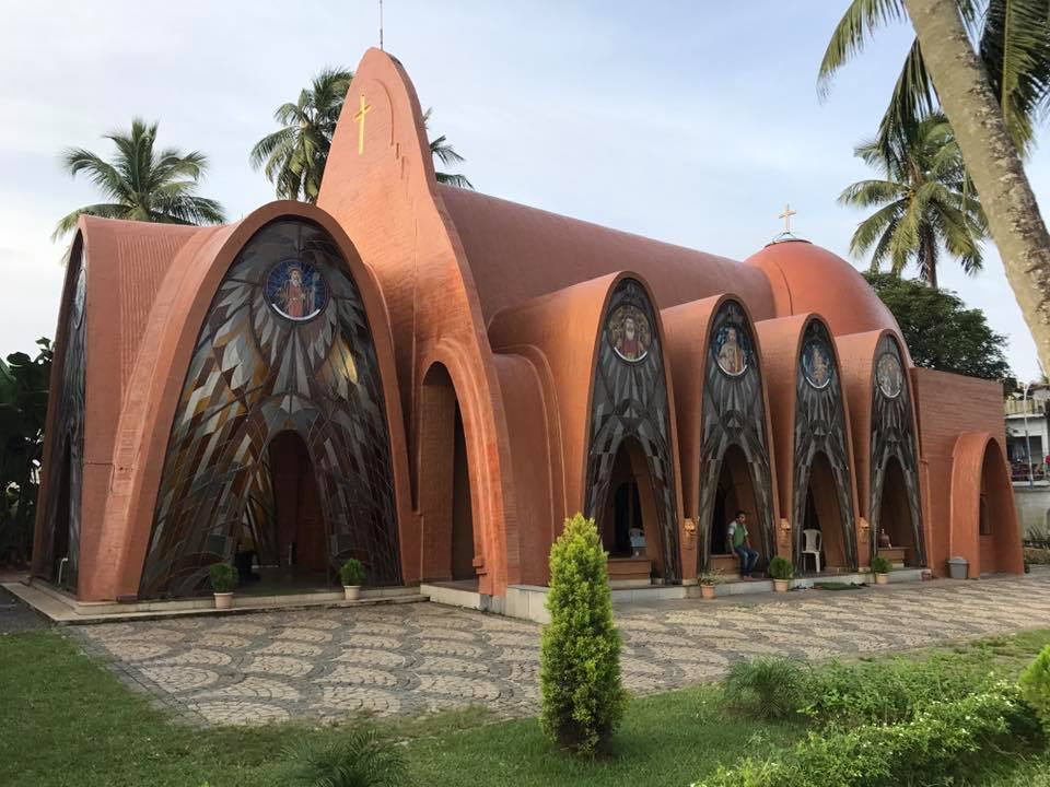 Oldest St George Church in Kochi (Cochin) Ernakulam district, Kerala consecrated with installation of holy Relics St George in its altar.